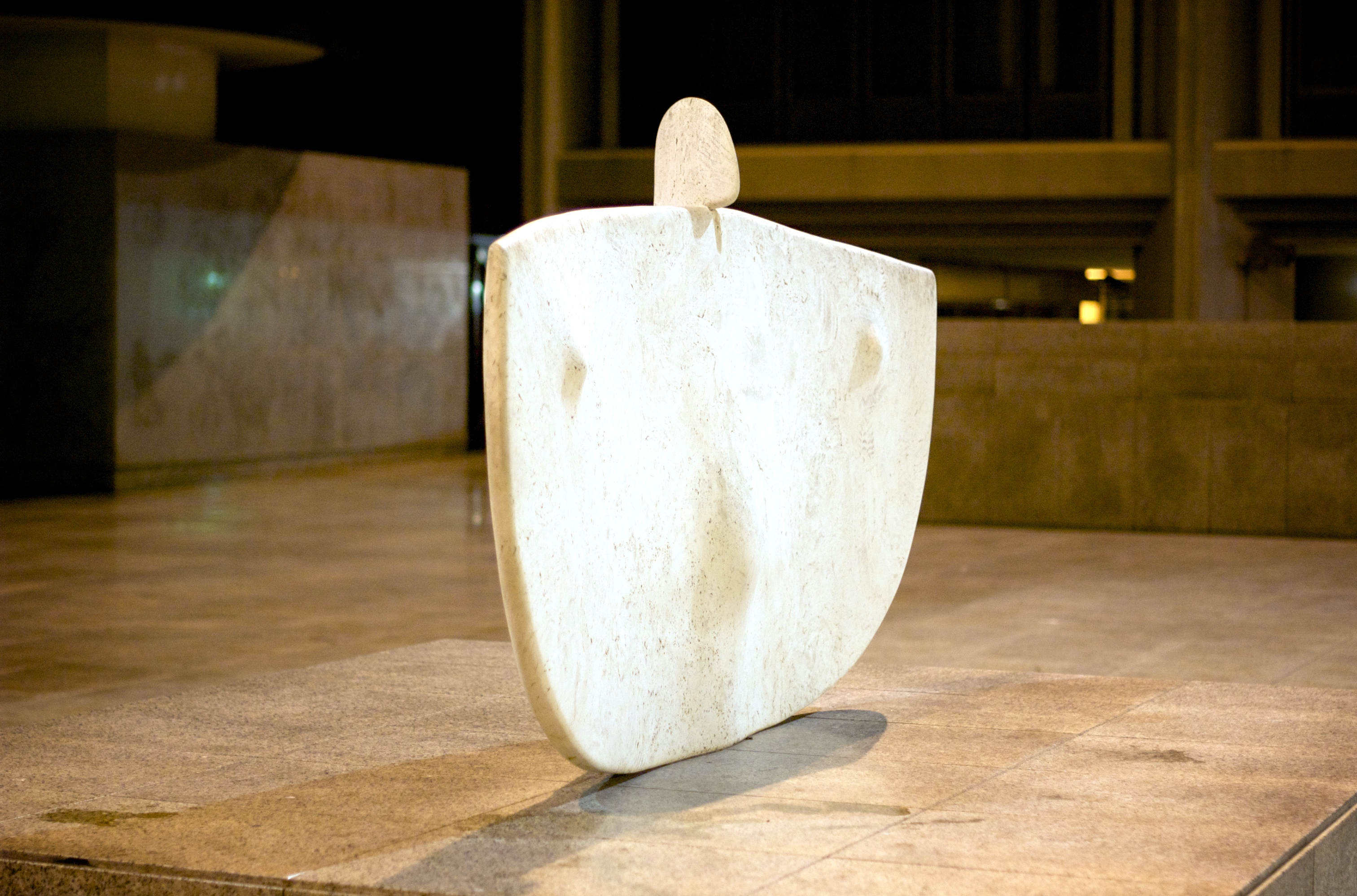 Cagliari, Sardinia sculpture of Costantino Nivola